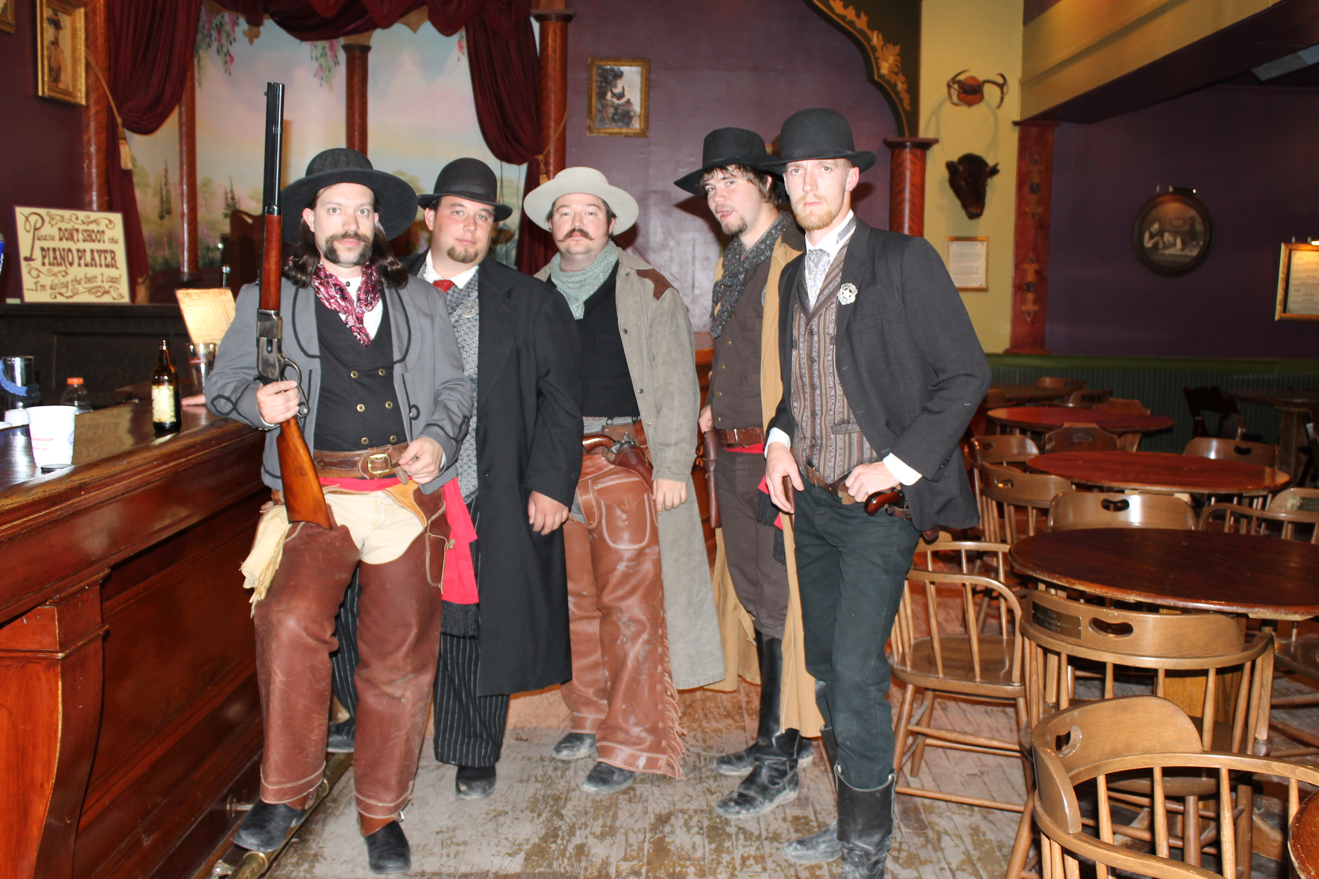 Some of Boot Hill's finest gunfighters.